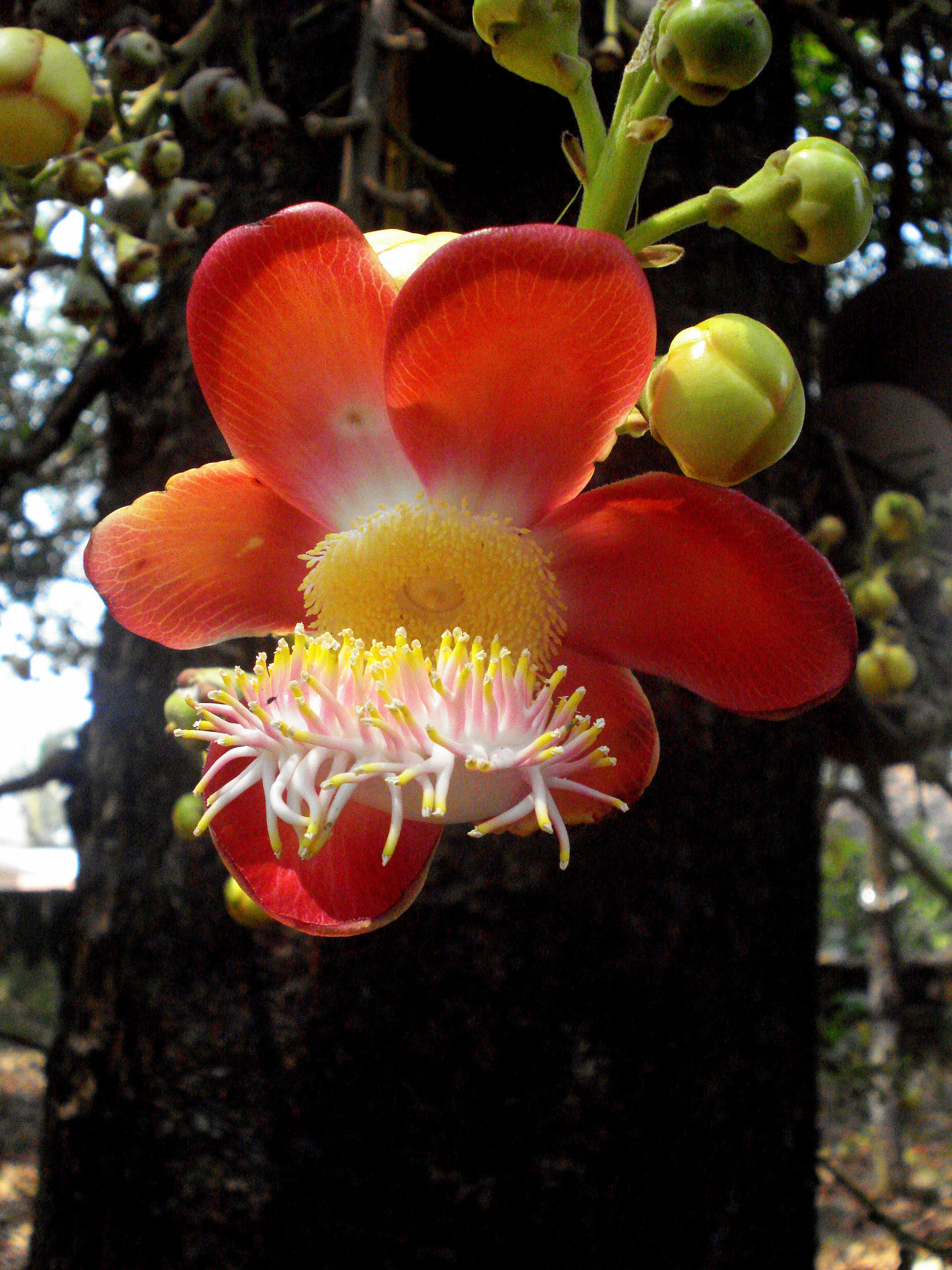 Botanical name: Couroupita guianensis